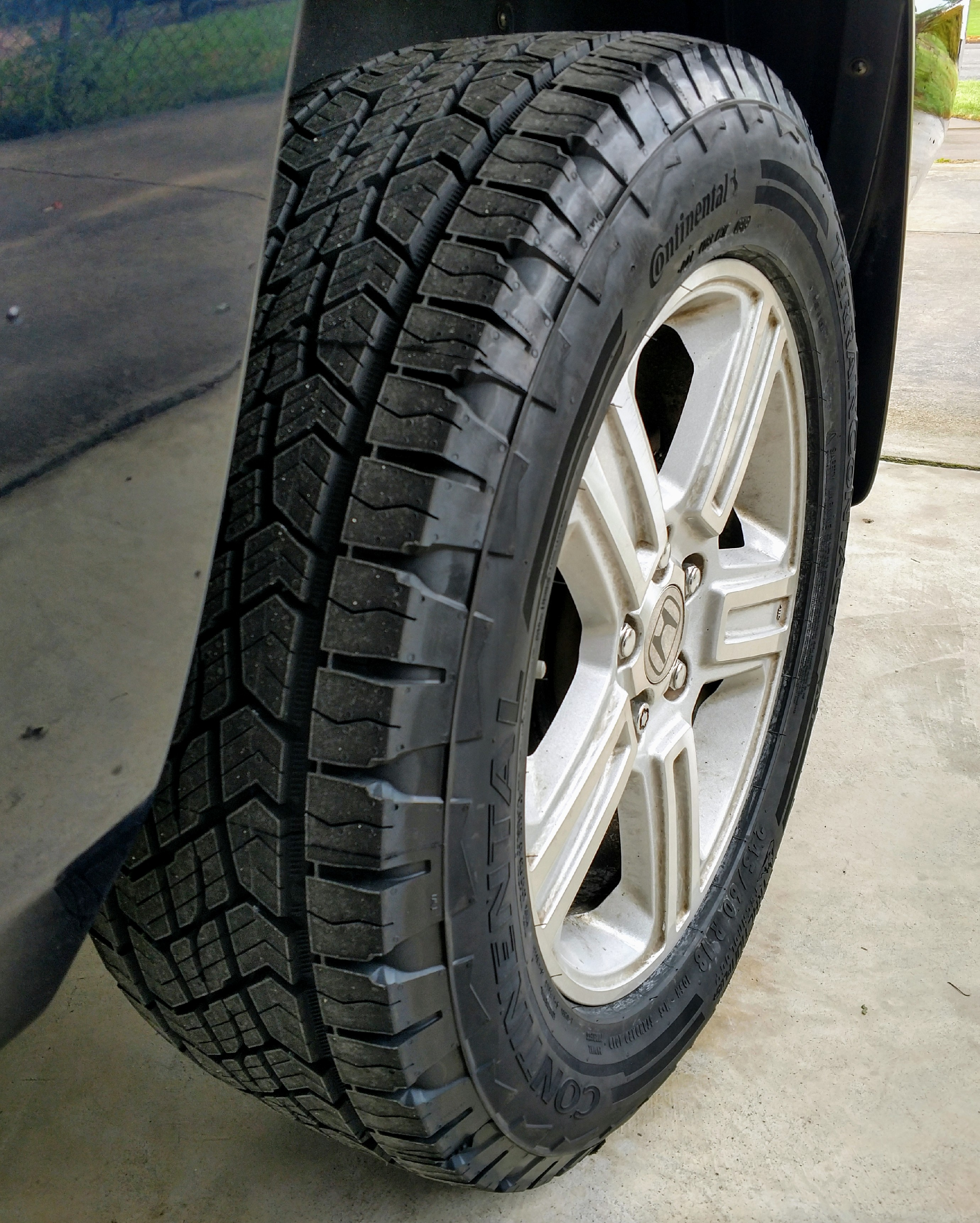 A 2009 Honda Ridgeline RTL with Continental TerrainContact A/T mild all-terrain tires